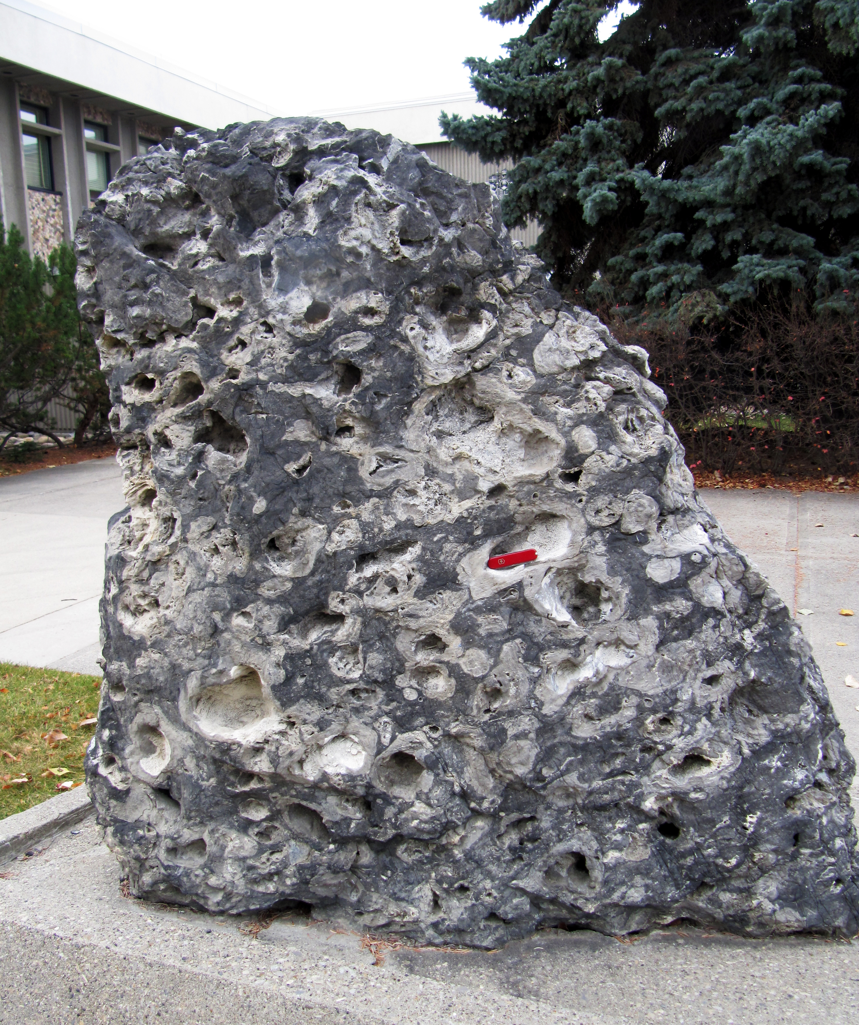 Stromatoporoid reef, (Cairn Formation, Late Devonian), on display in Calgary, Alberta, Canada